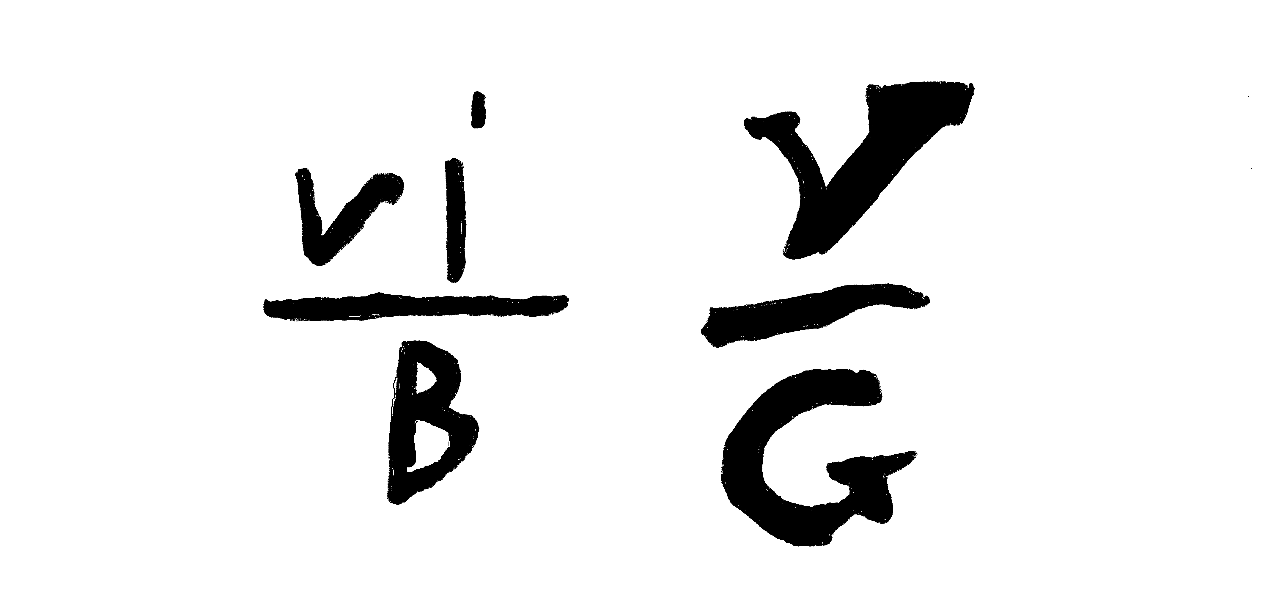 Mark (painted) of the faience manufactory Lesum (North Germany), about 1760